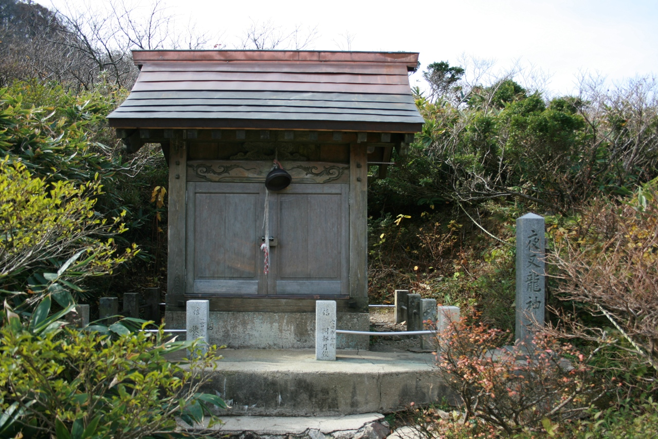 Shrines_Okumiyayasyaryu_2008-11-6